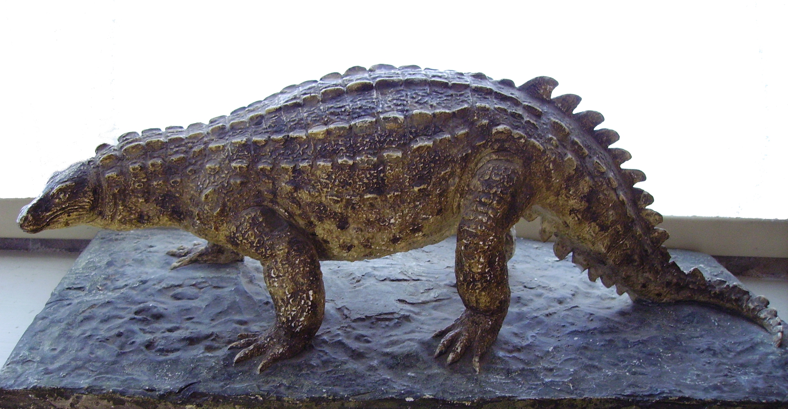 Photographer: User:Ballista Model from Philpot Museum, Lyme Regis, England